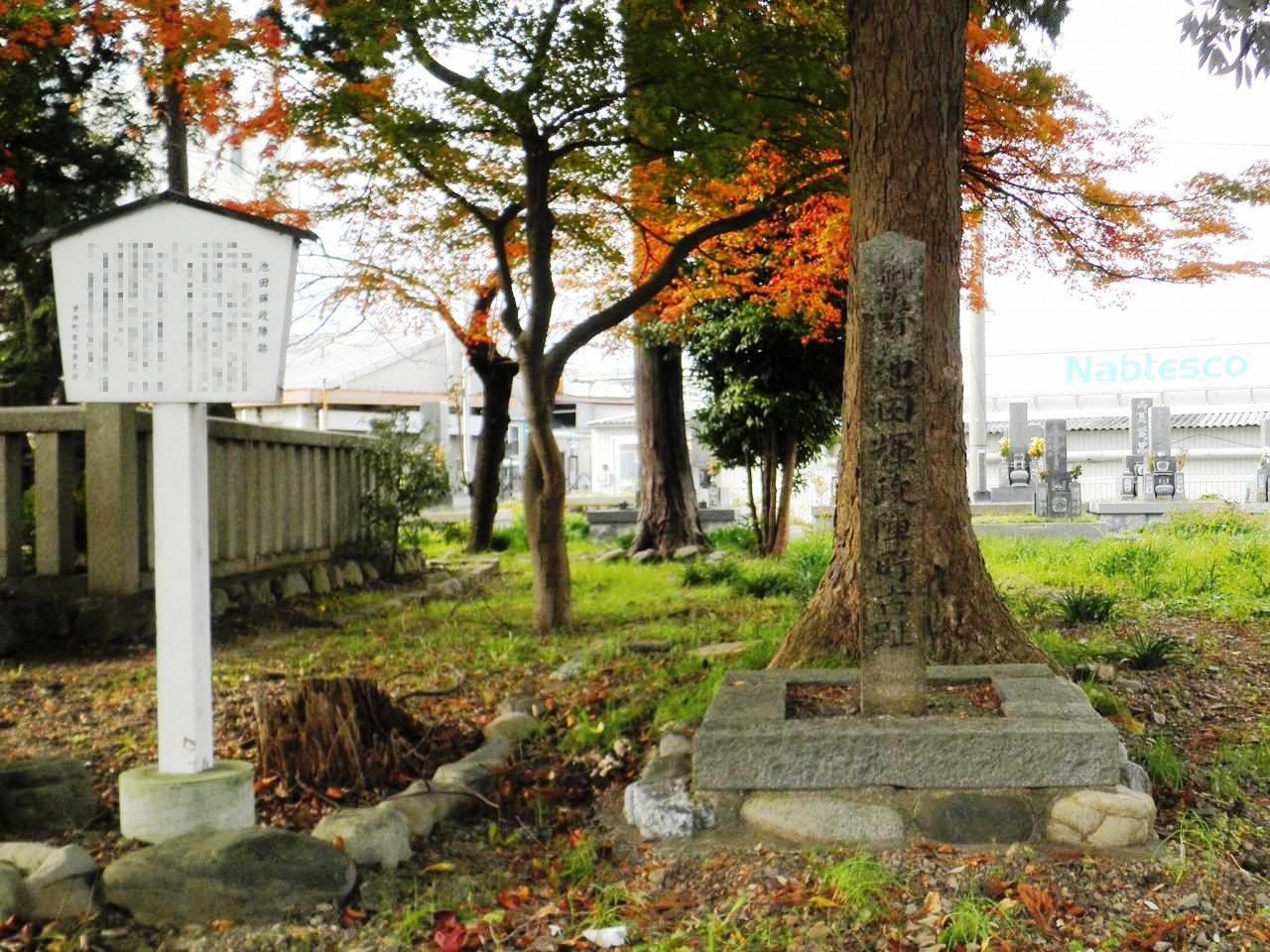 Site of Ikeda Terumasa's position in the Battle of Sekigahara in Tarui, Gifu.